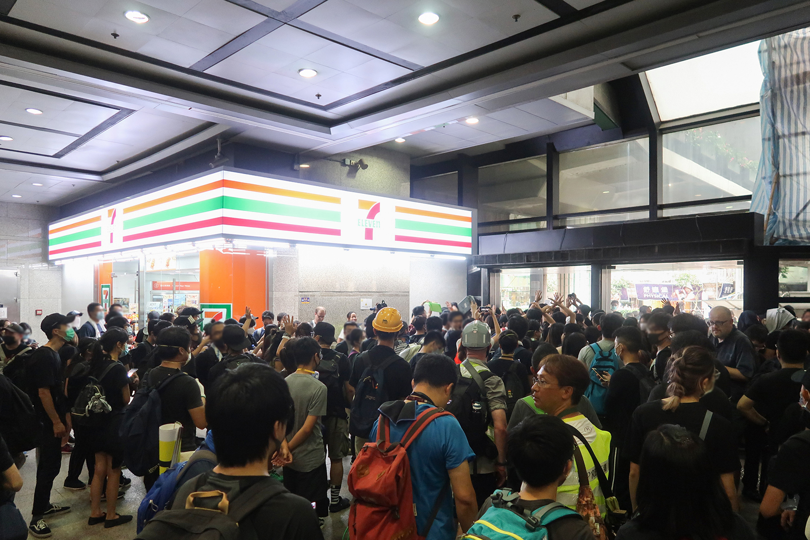 Protesters occupy Immigration Tower